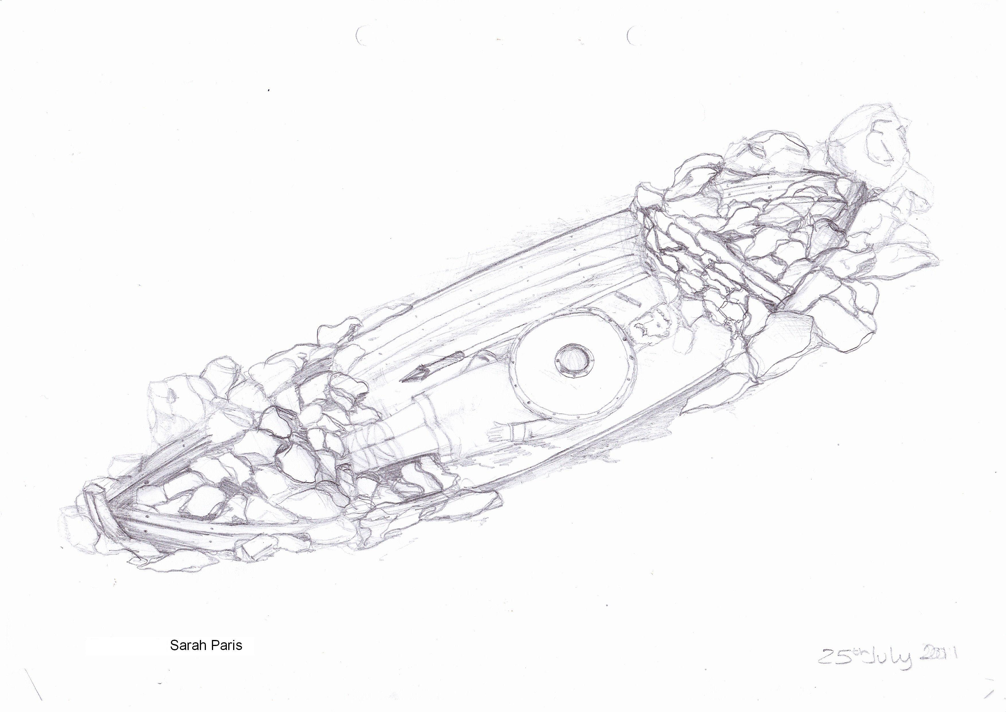 Reconstruction of the Viking boat burial at Ardnamurchan by Sarah Paris, University of Manchester.